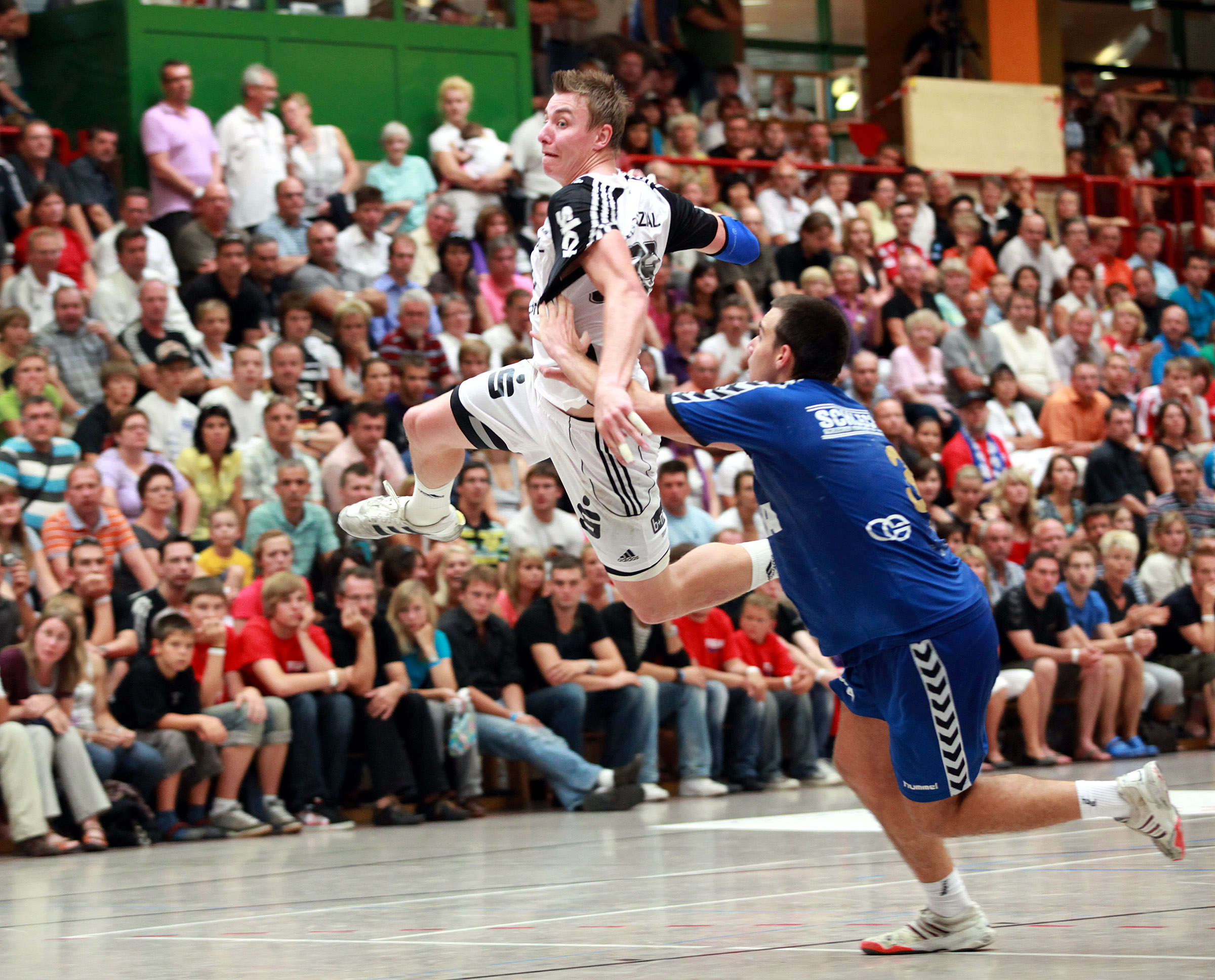 Filip Jicha, Czech handball player from THW Kiel, on August 22nd 2009 in Ehingen (Germany), during the Schlecker Cup 2009